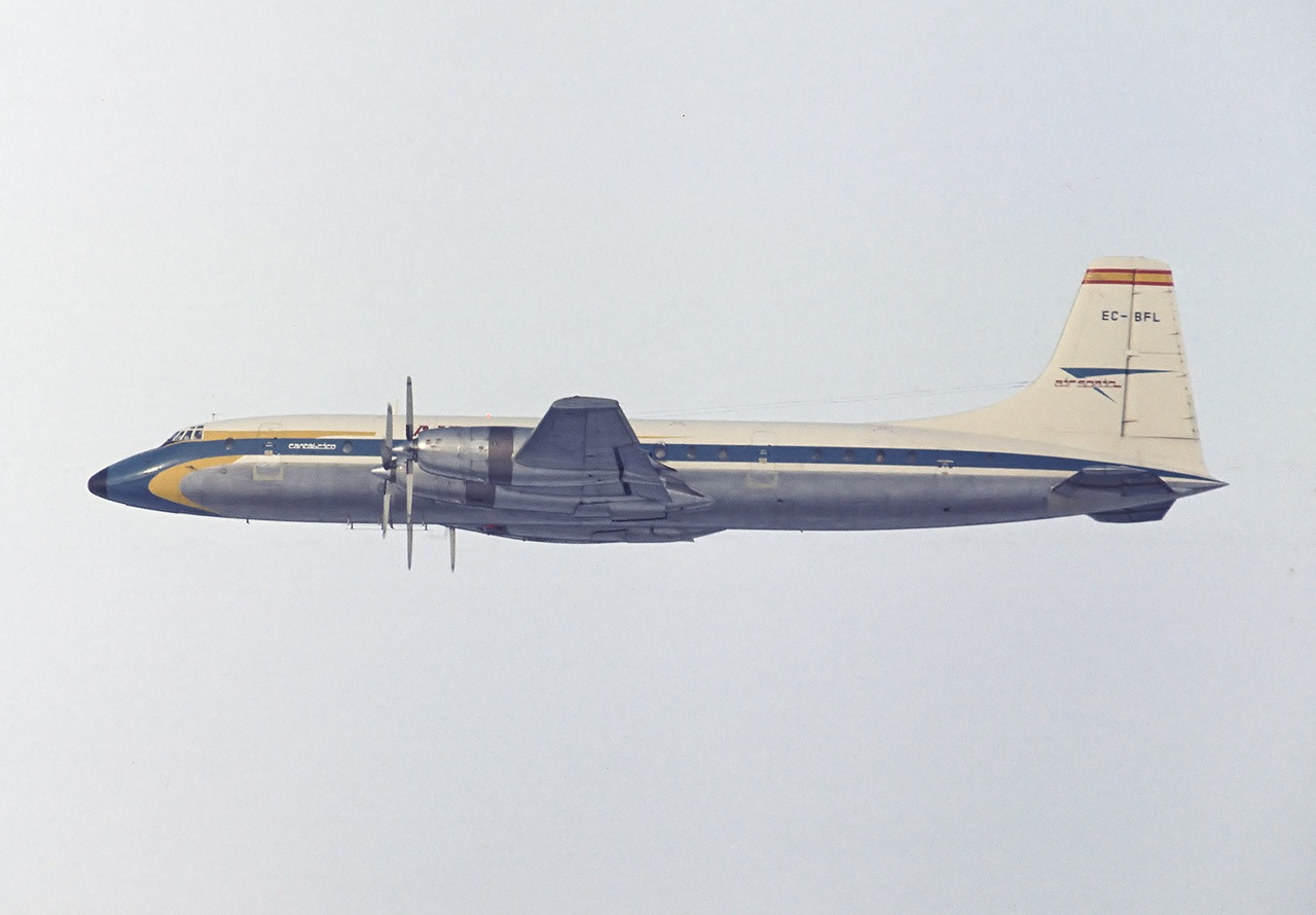 EC-BFL (cn 13233) Take-off from runway 26 Stockholm - Arlanda (ARN / ESSA)